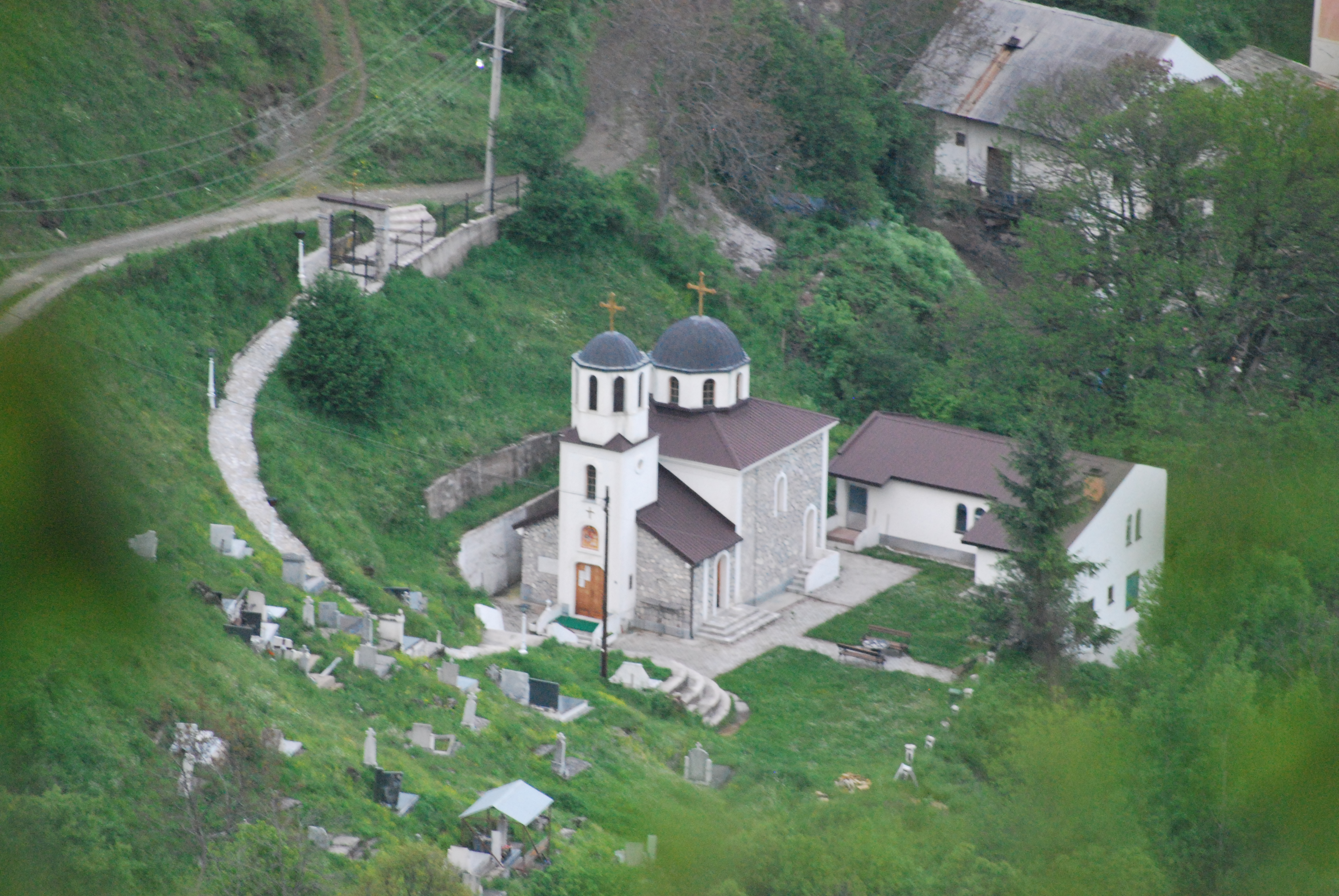 Holy Mother of God Church in Sretkovo, Macedonia